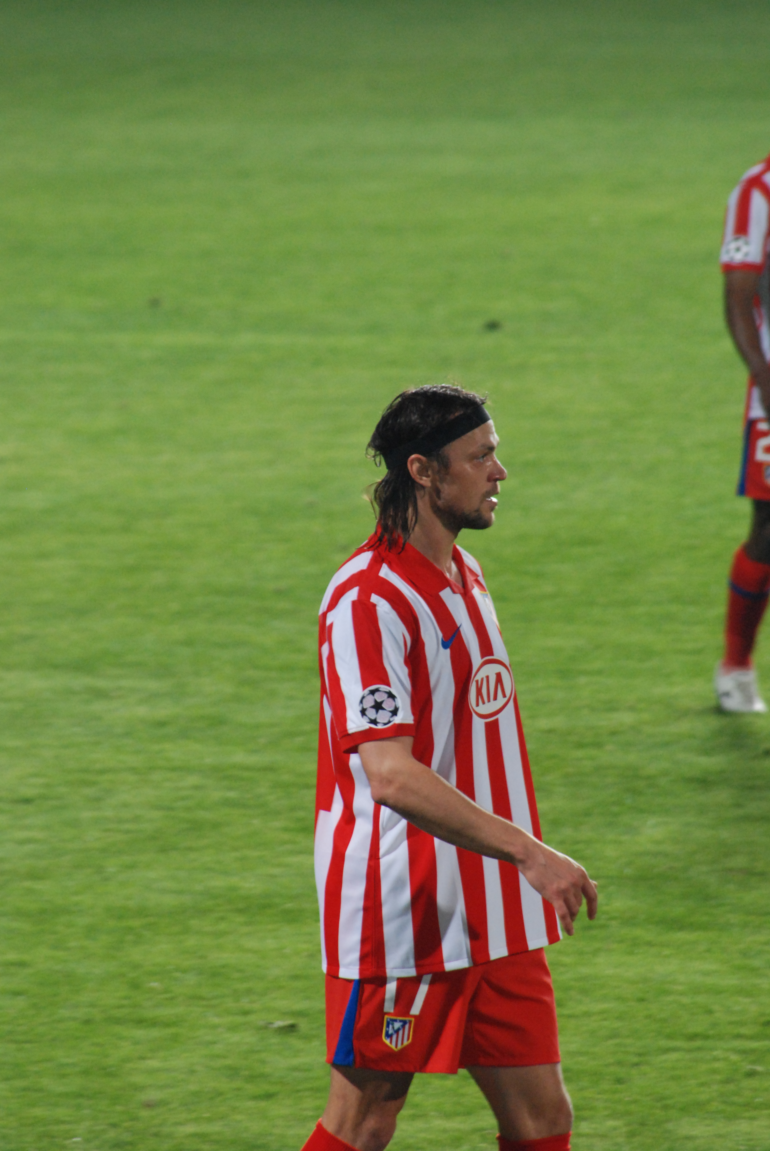 Tomáš Ujfaluši For the group stages of the UEFA Champions League 2009/2010.